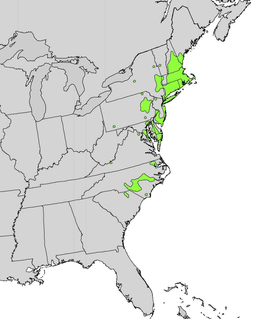 Range distribution map of Ilex laevigata — native to the Eastern United States.